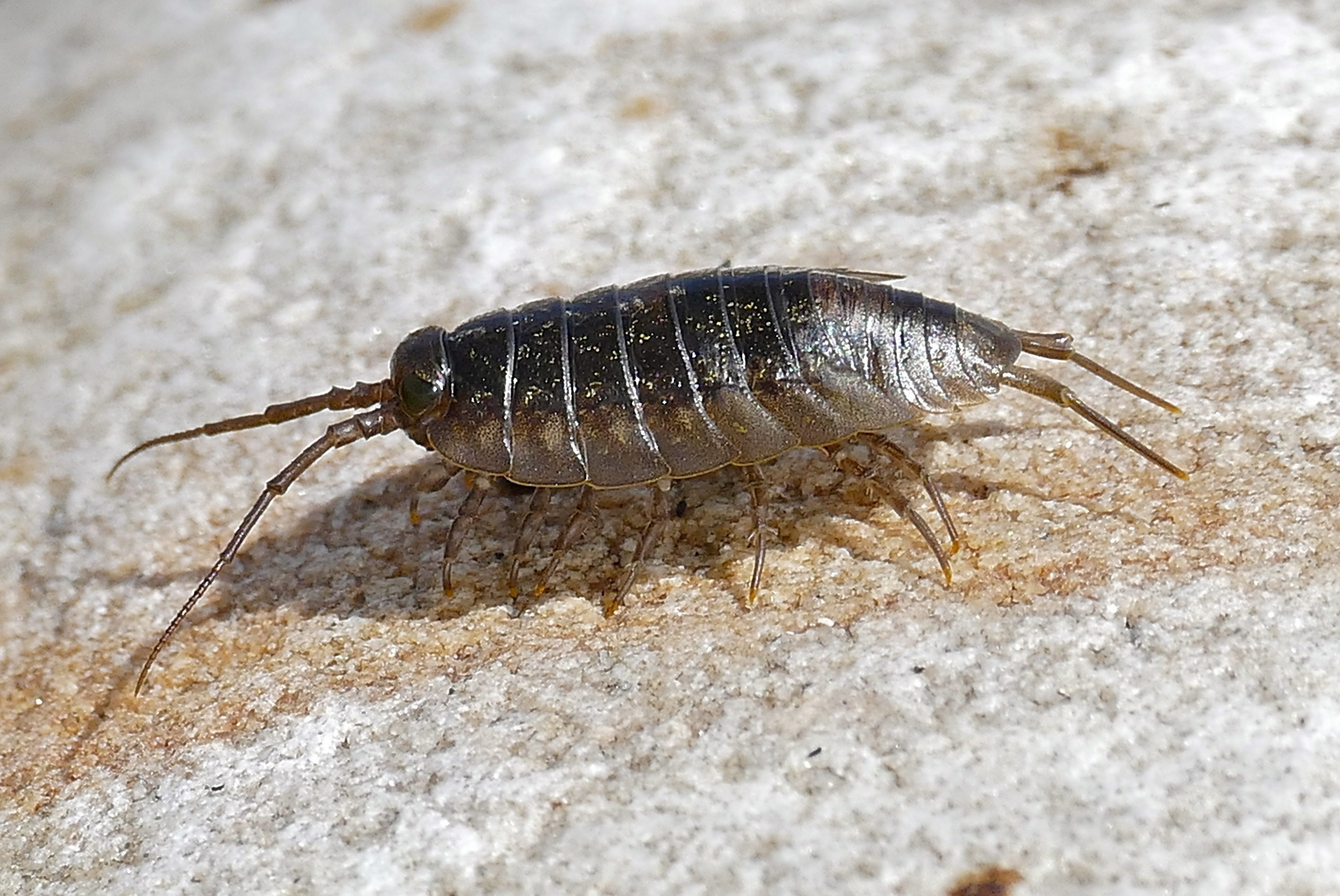 Platboom Bay, Cape of Good Hope Reserve, Cape Peninsula, Western Cape, SOUTH AFRICA